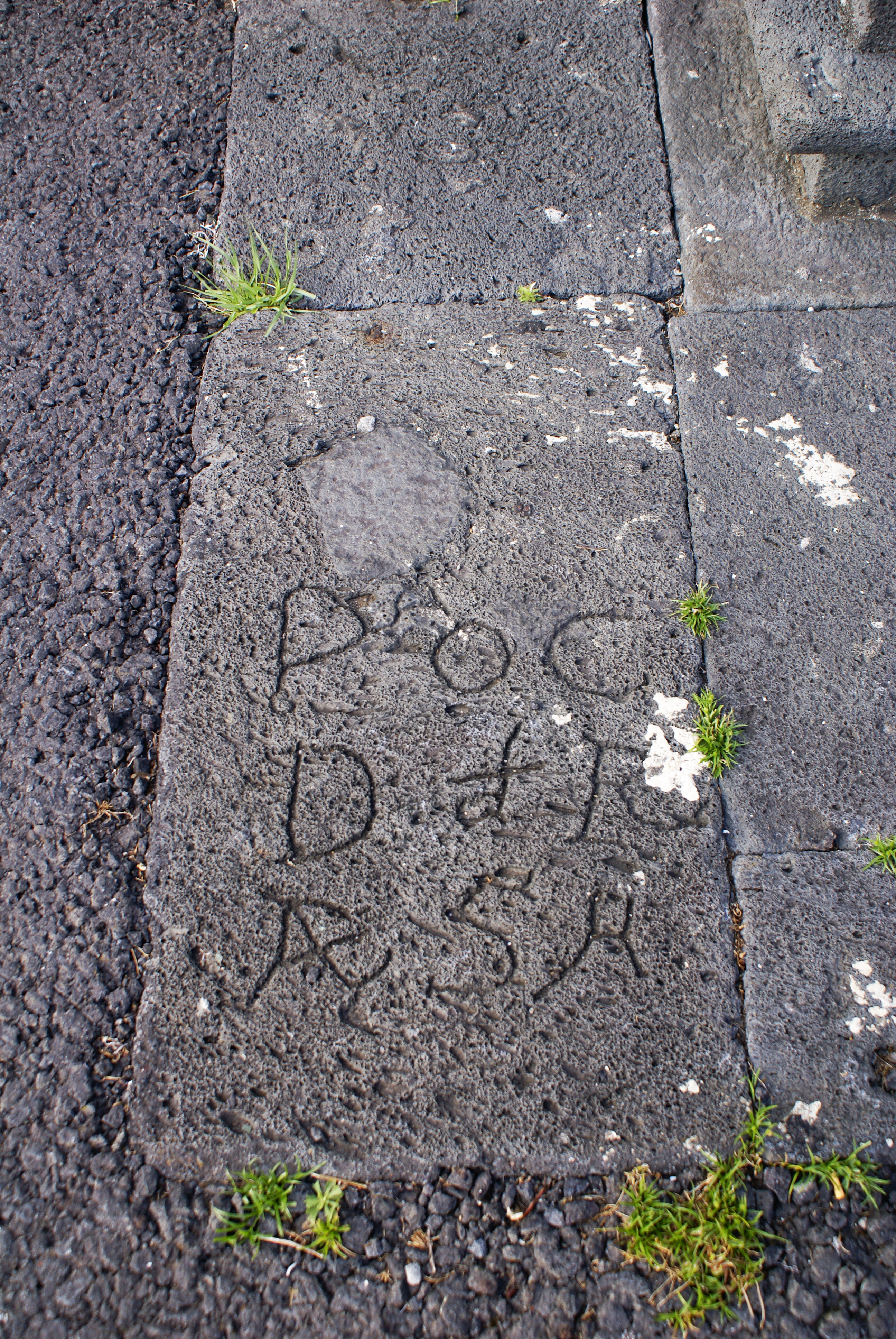 Igreja de Santa Ana, importante pedra lavrada, adro da igreja, Capelo, concelho da Horta, ilha do Faial, Açores, Portugal